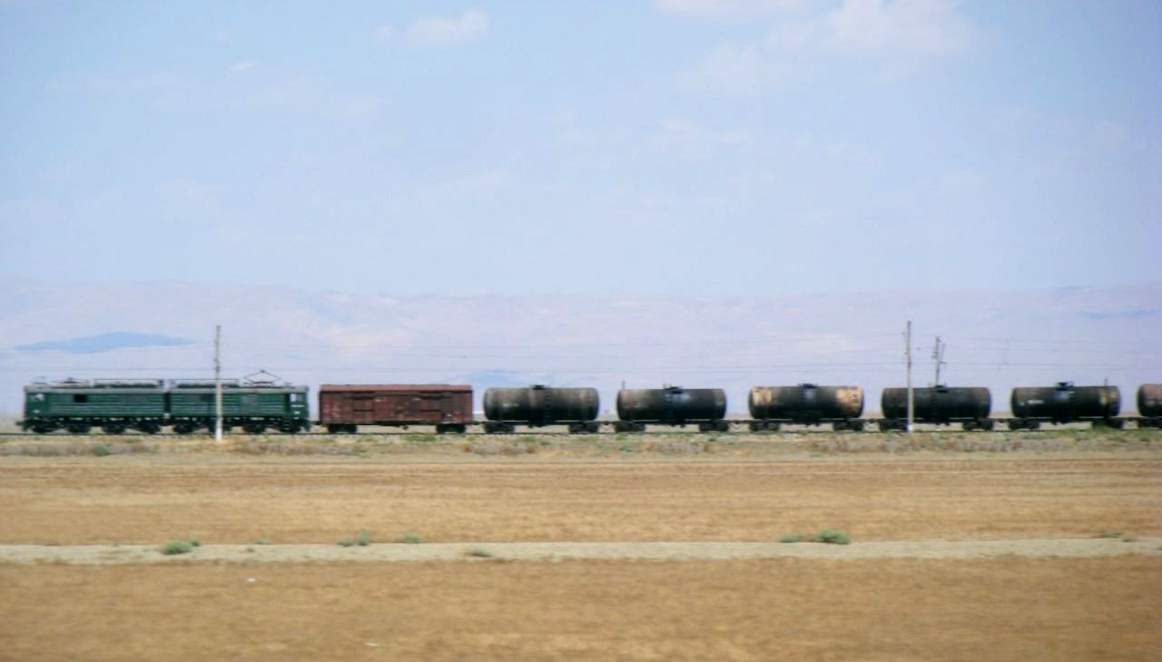 Train in Azerbaijan.